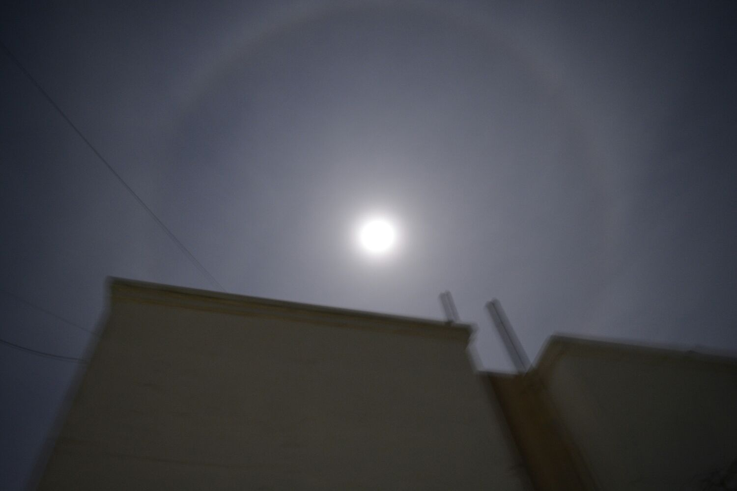 22° halo around the moon in Khale.